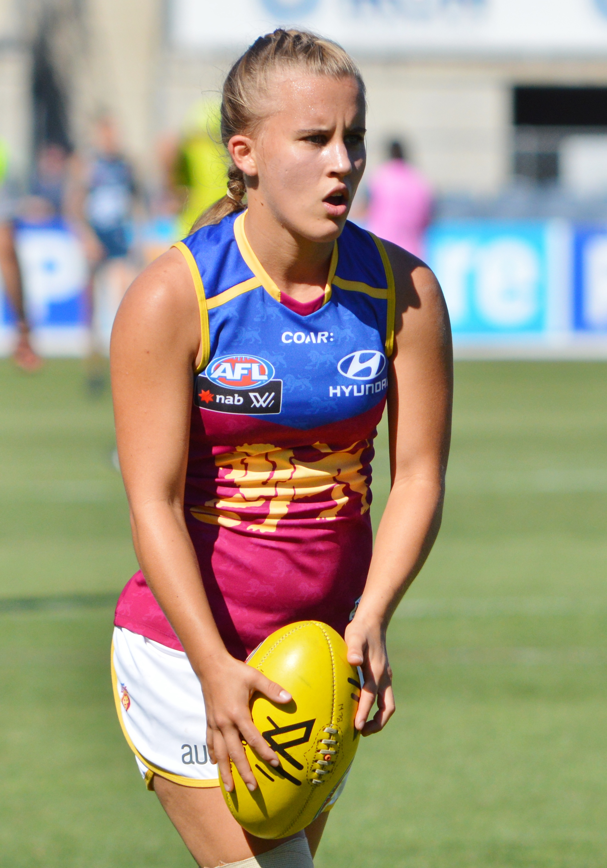 Nikki Wallace during the round 7, 2017 AFL Women's match between Carlton and Brisbane.